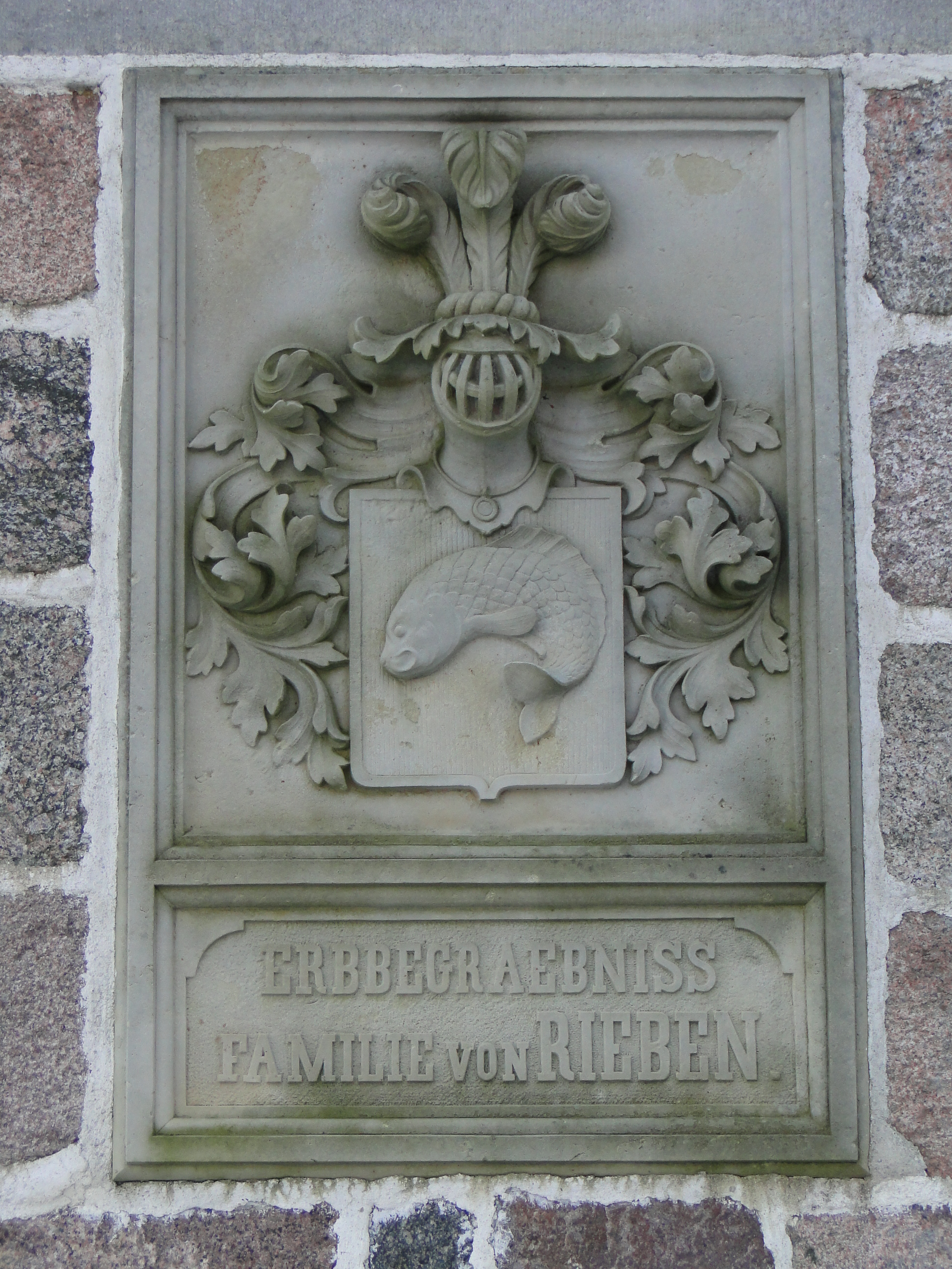 Tomb of Rieben family in Galenbeck, district Mecklenburg-Strelitz, Mecklenburg-Vorpommern, Germany